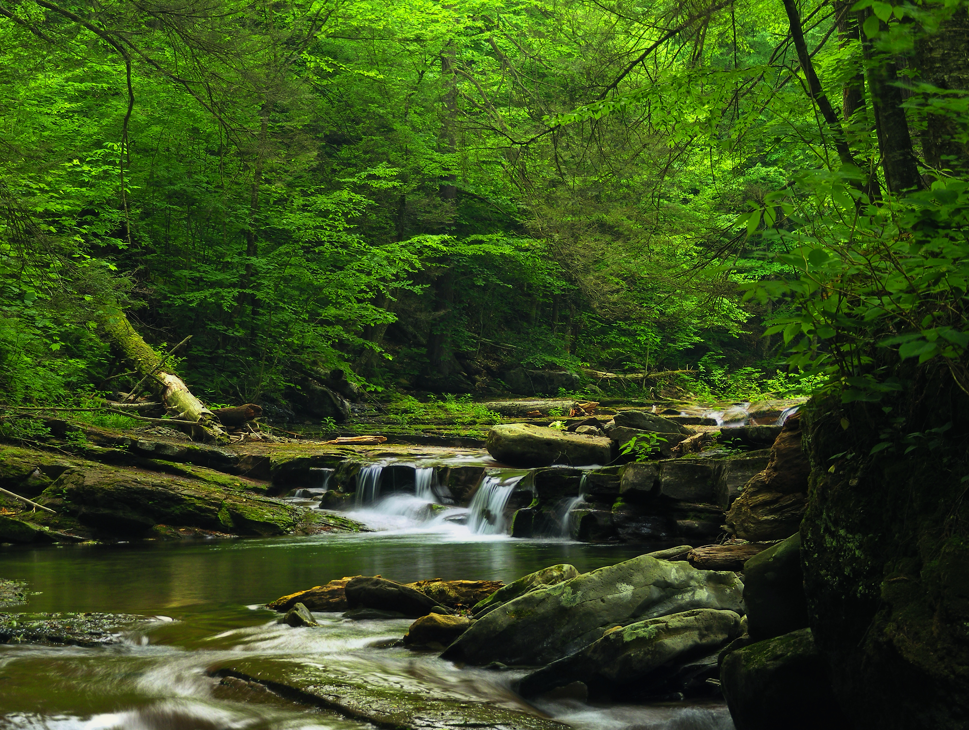 Heberly Run, State Game Land 13, — Sullivan County, Pennsylvania.